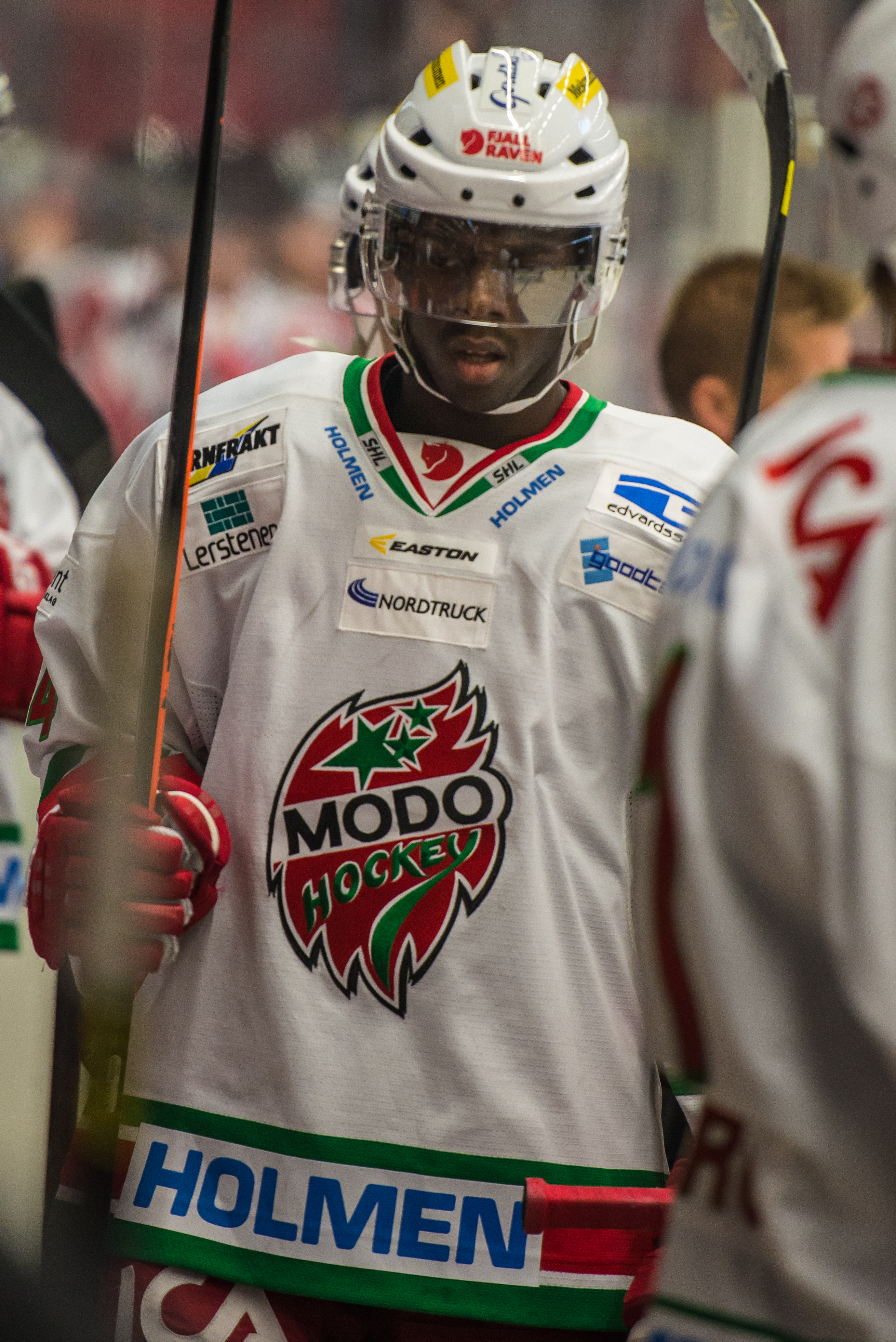 Edwin Hedberg playing for MODO Hockey in SHL (Swedish Hockey League – Sweden's highest league) vs Örebro HK in Behrn Arena 2013-10-05.